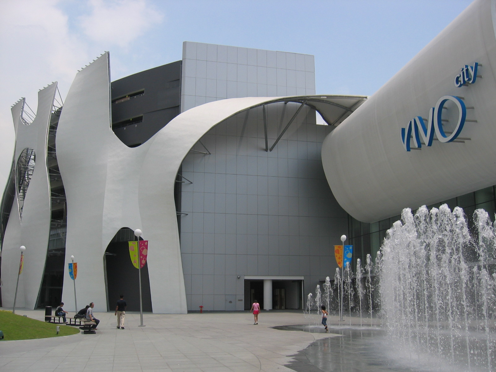 VivoCity.